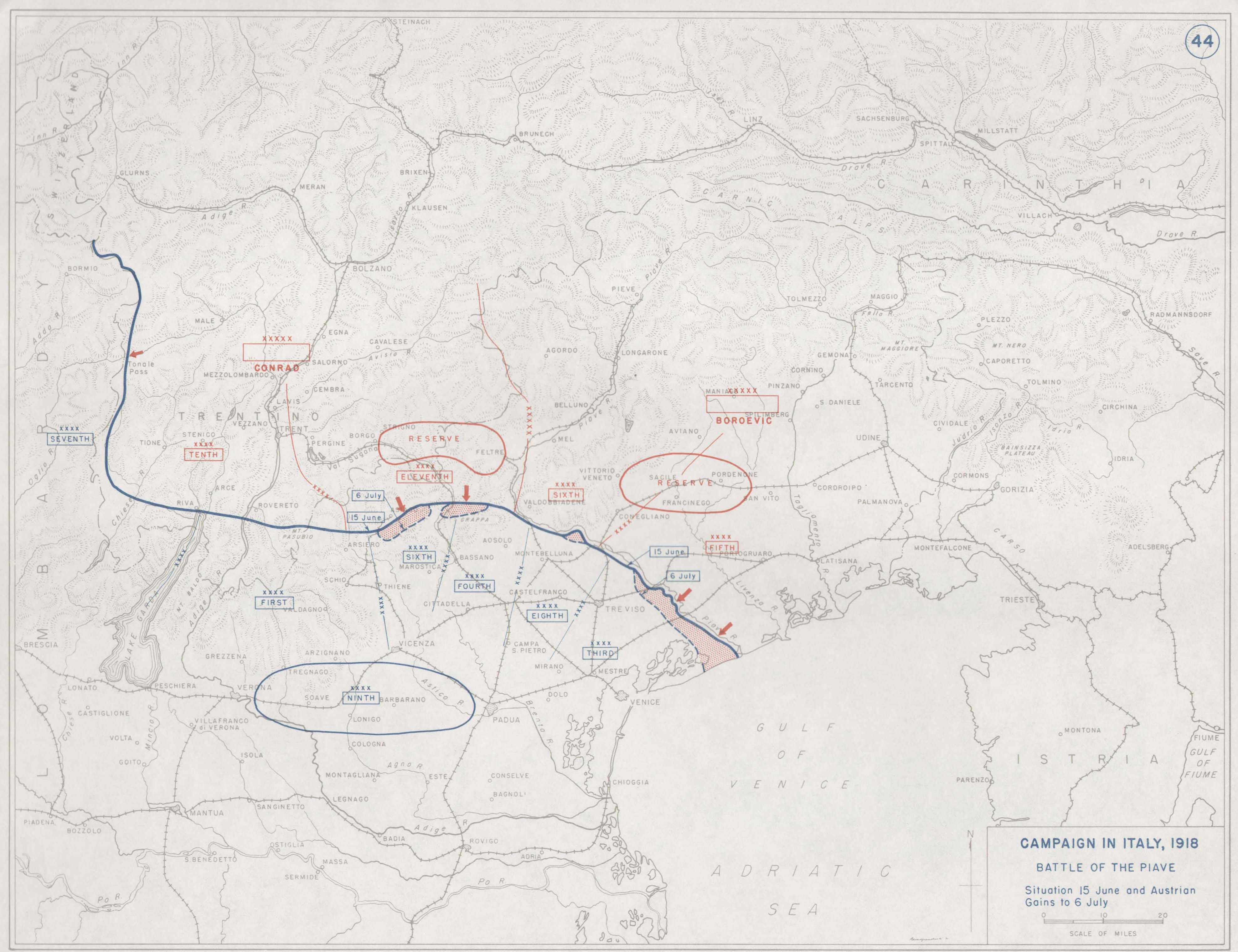 Map of the Battle of the Asiago Plateau and the Piave River, July 1918